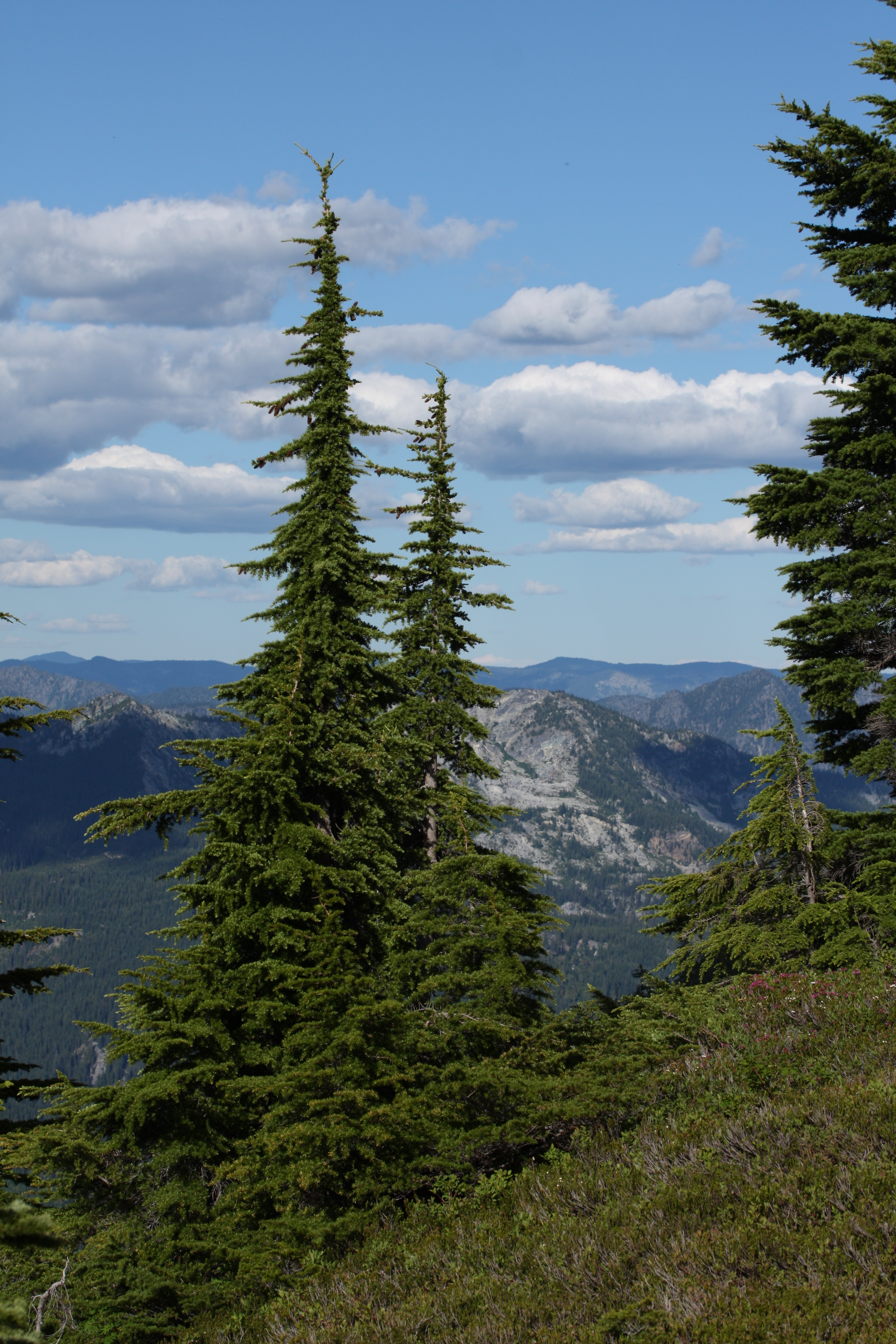 Mountain Hemlock, Black Hemlock